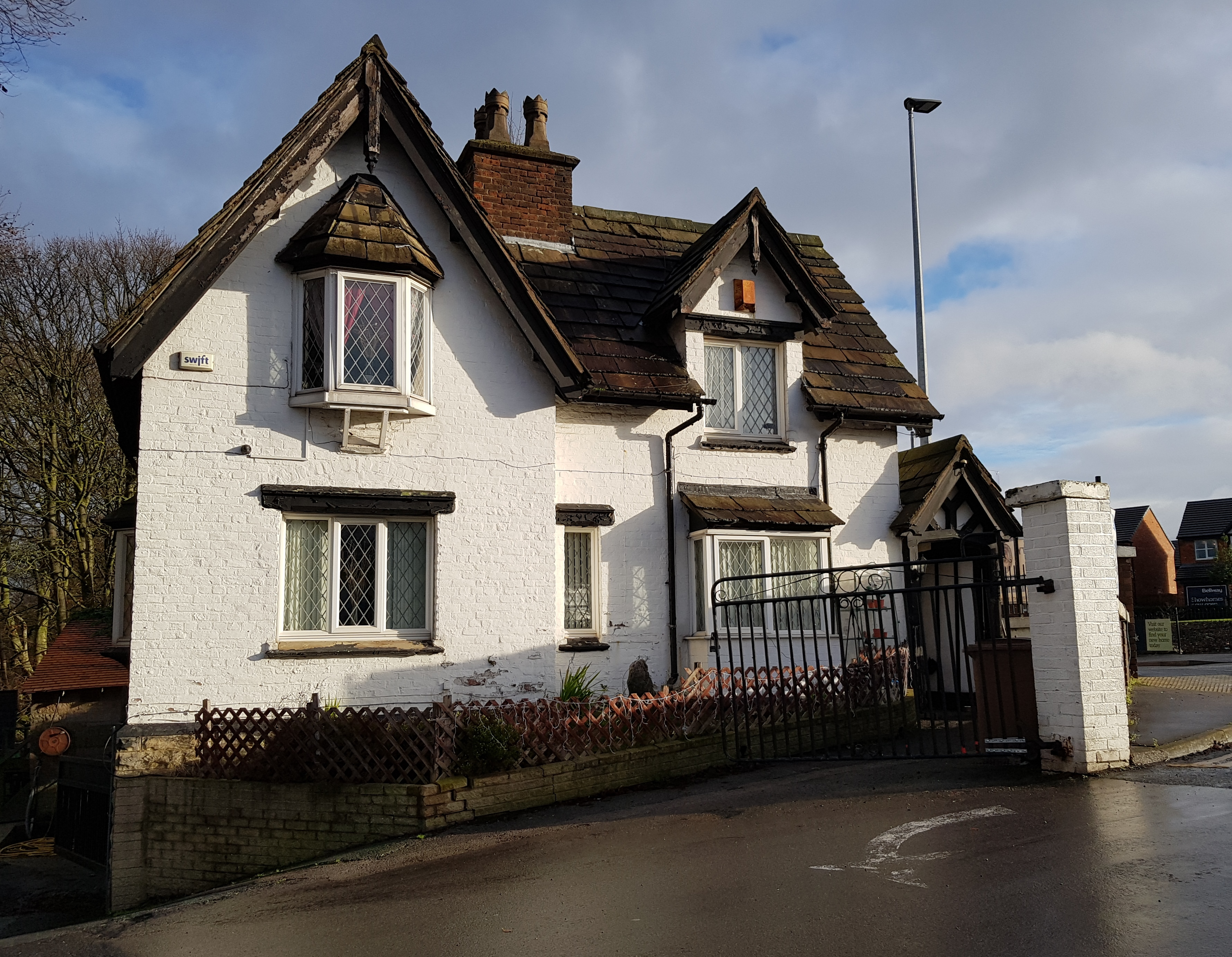 The gatehouse, or lodge, is all that is left of the Langley Estate in Agecroft, Greater Manchester.